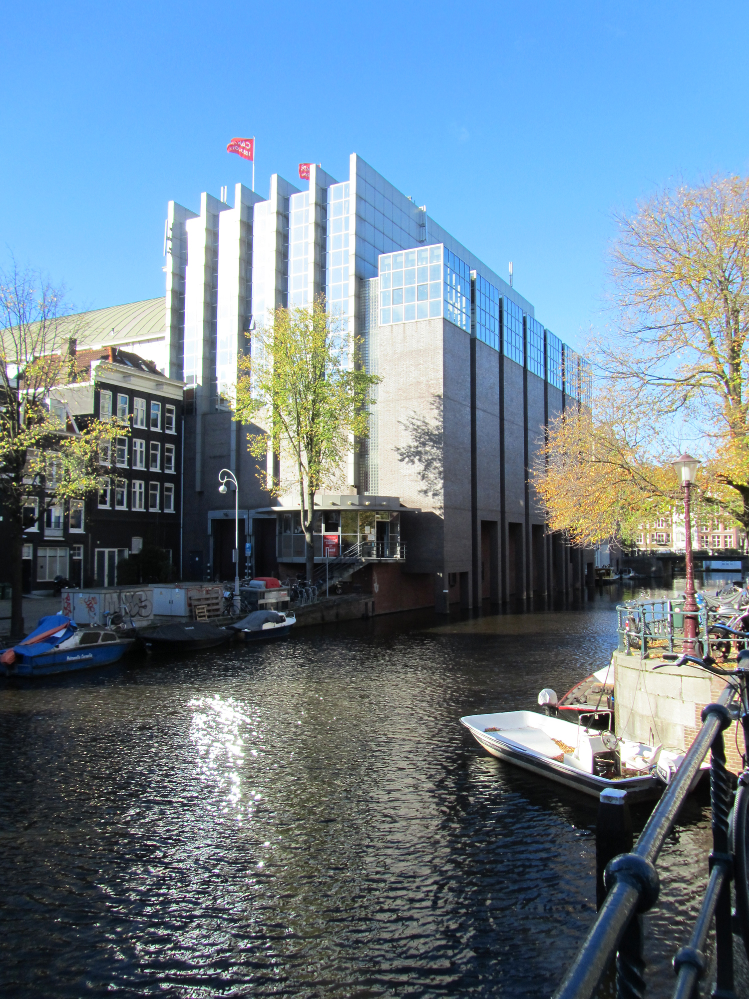 Onbekendegracht canal in Amsterdam, viewing the back side of Carré theatre